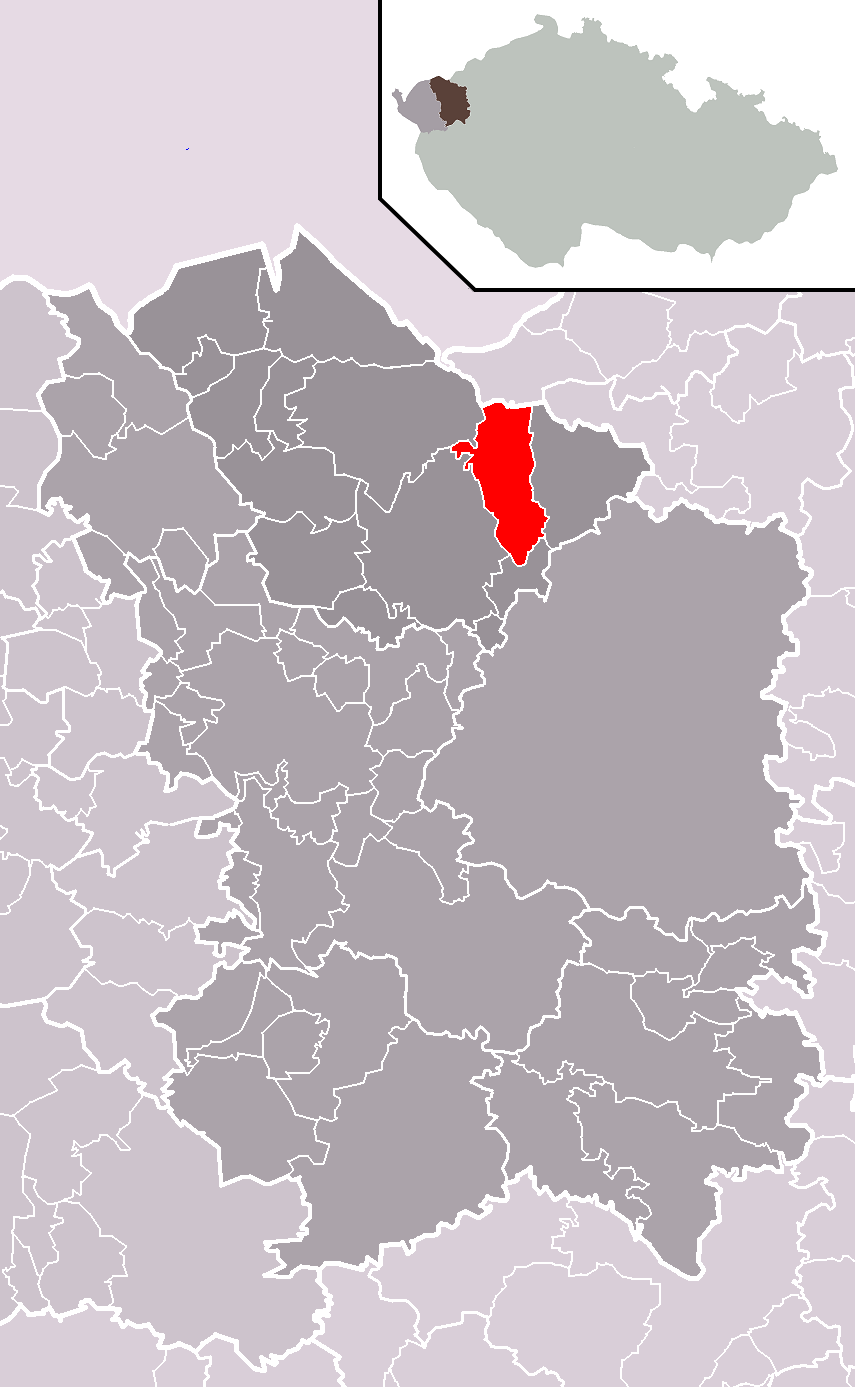 Location of Krásný Les municipality within Karlovy Vary District and administrative area of Ostrov as a Municipality with Extended Competence.